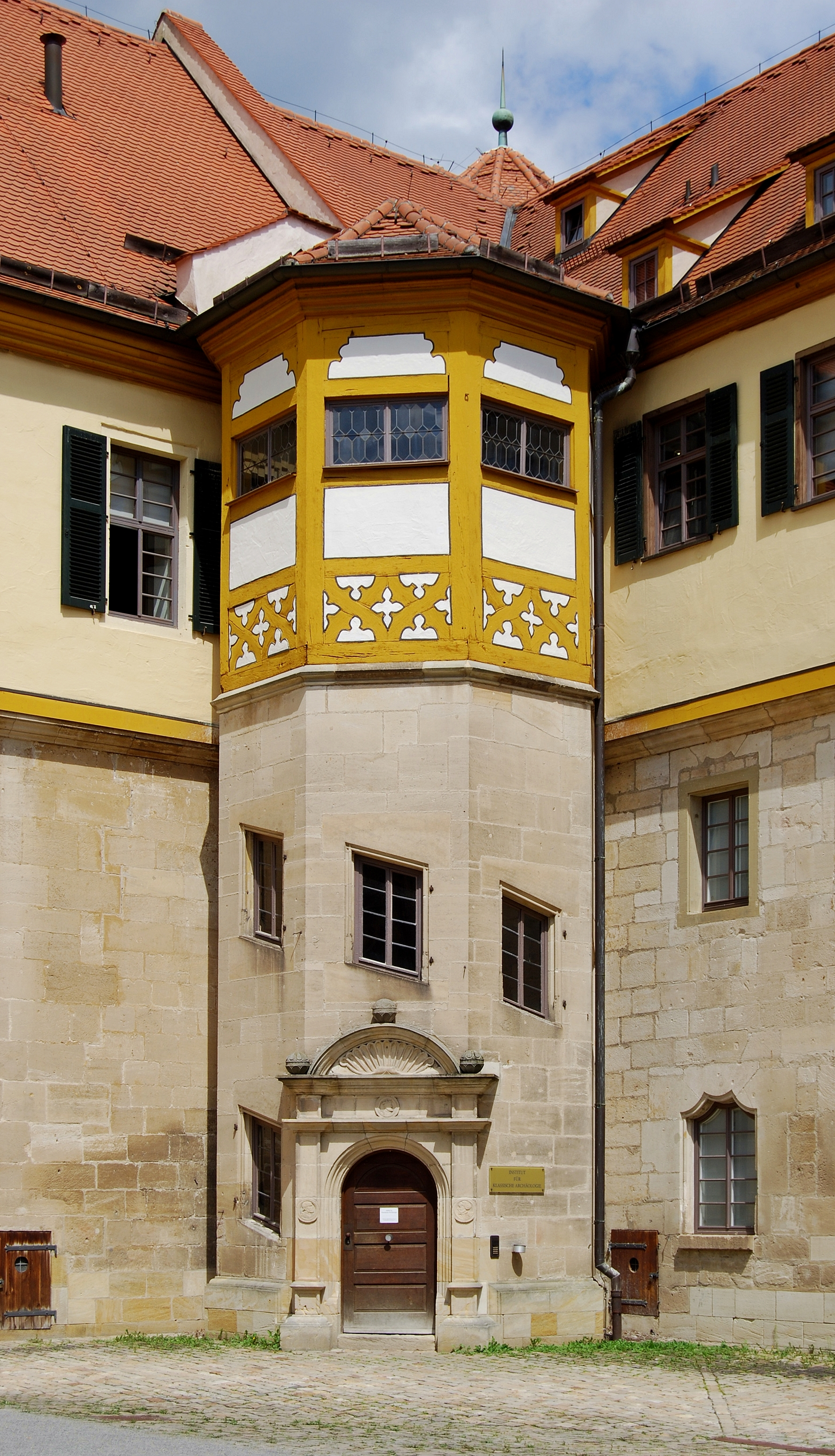 A tower of Hohentübingen castle, entrance of Institute of Classical Archaeology, Tübingen.